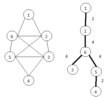 undirected graph with gomory hu tree (weights of the edges in the graph equals 1 )